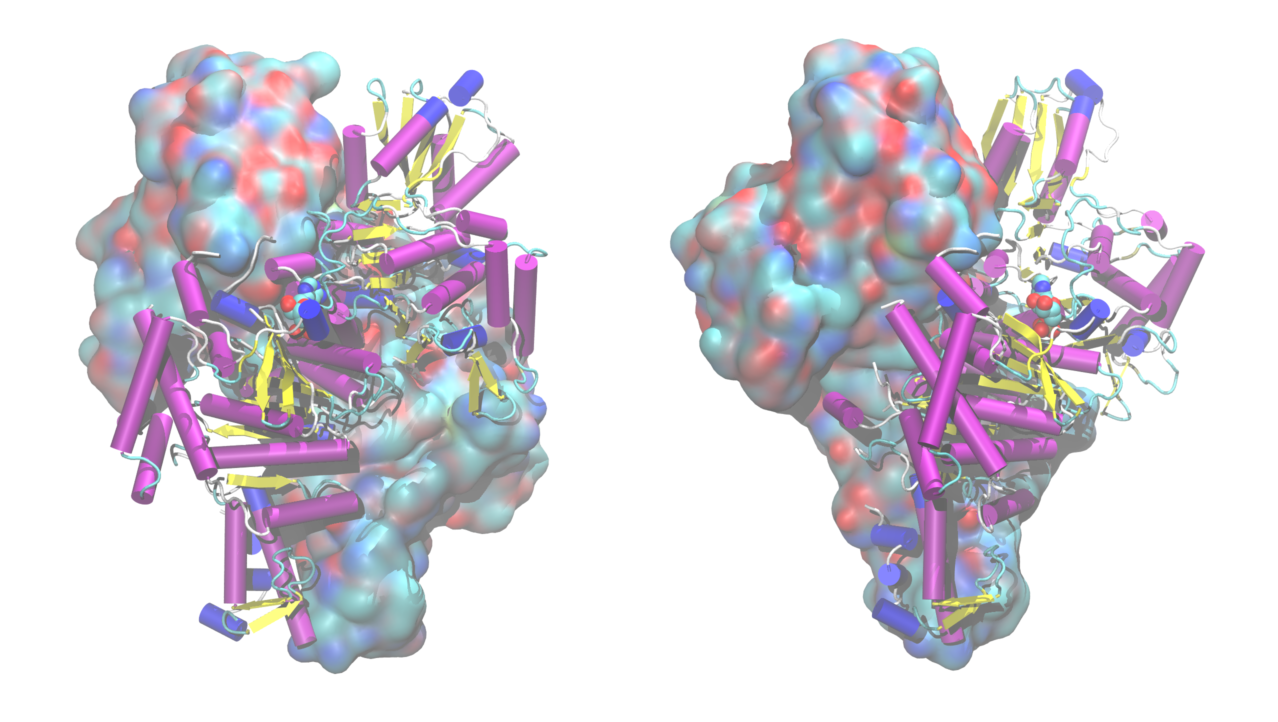 Cartoon/surface model of oxoglutarate dehydrogenase E1 subunit (E1O) dimer from E.coli (two views) with a thiamine analogue as balls, after PDB 2jgd. Ref.: R.A.Frank et al. (2007). Crystal structure of the E1 component of the Escherichia coli 2-oxoglutarate dehydrogenase multienzyme complex. J Mol Biol, 368, 639-651. PMID 17367808 This image was created with VMD